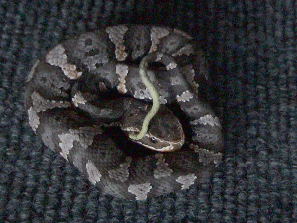 Juvenile Agkistrodon bilineatus taylori.